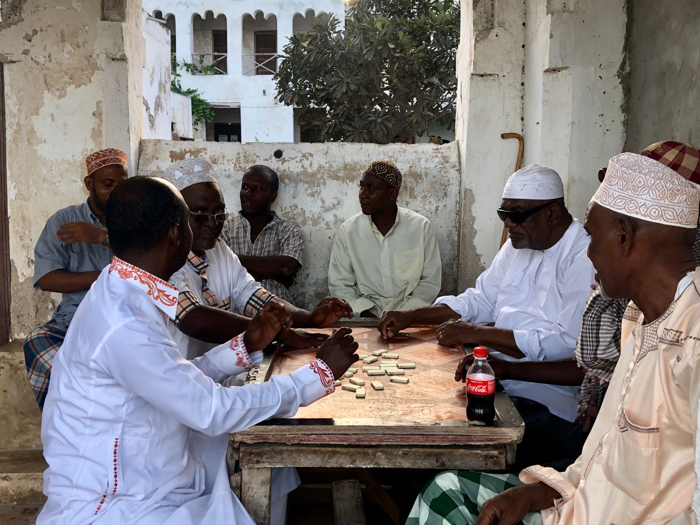 This is an image with the theme "Play" from: Kenya